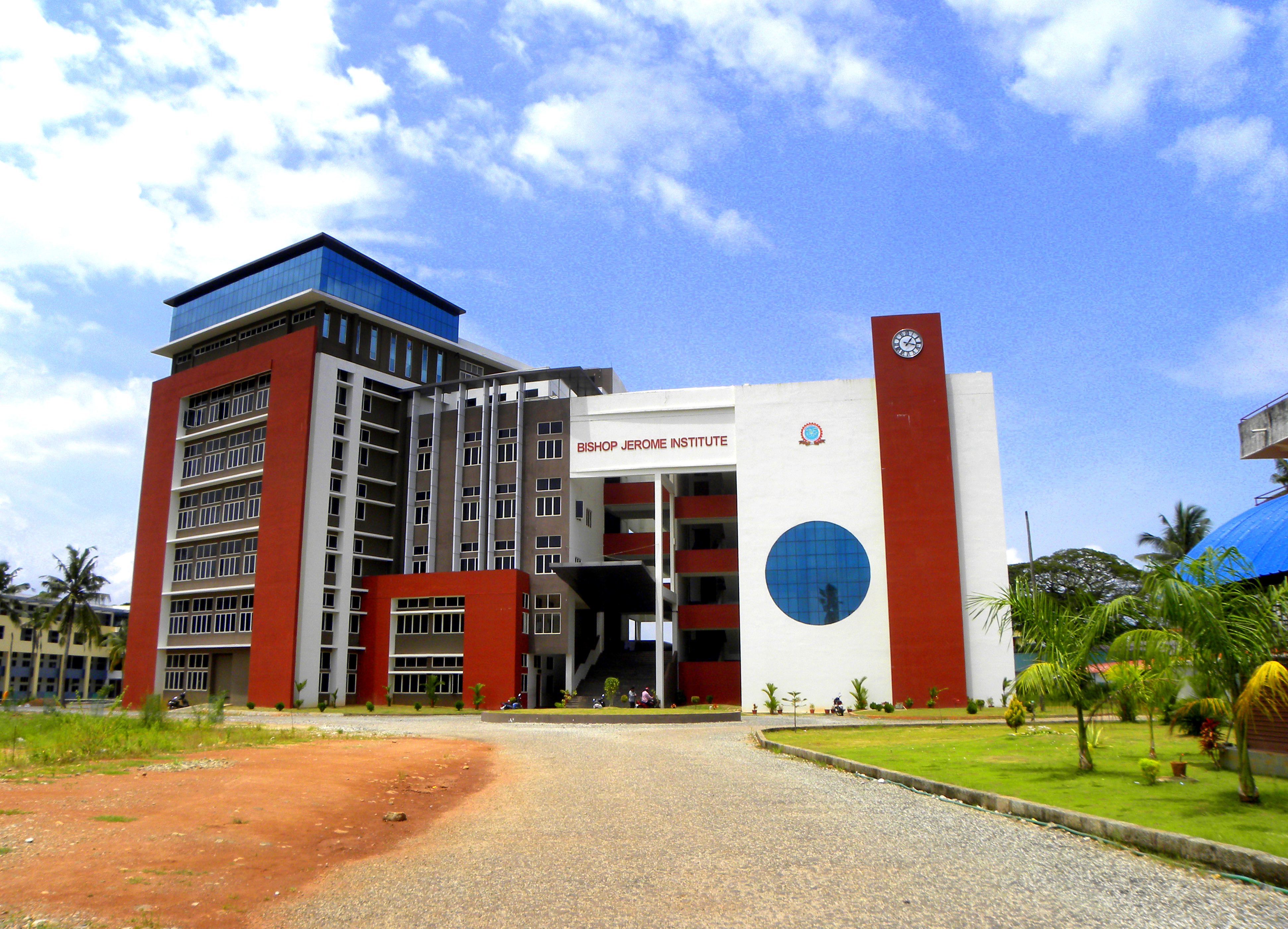 Bishop Jerome Institute, Kollam - Run by the Roman Catholic Diocese of Quilon